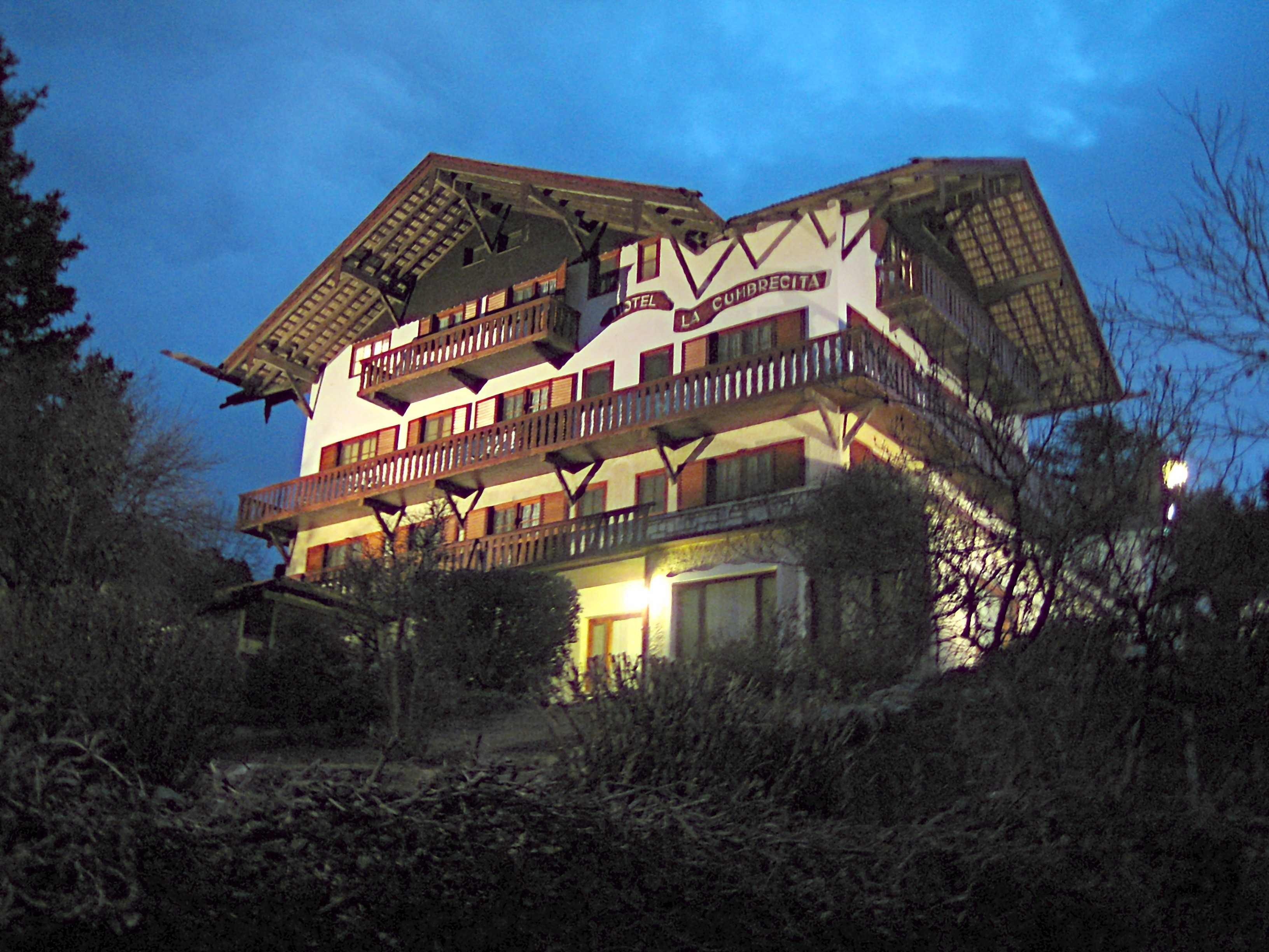 Hotel La Cumbrecita, in the Córdoba Province (Argentina) hamlet of the same name.